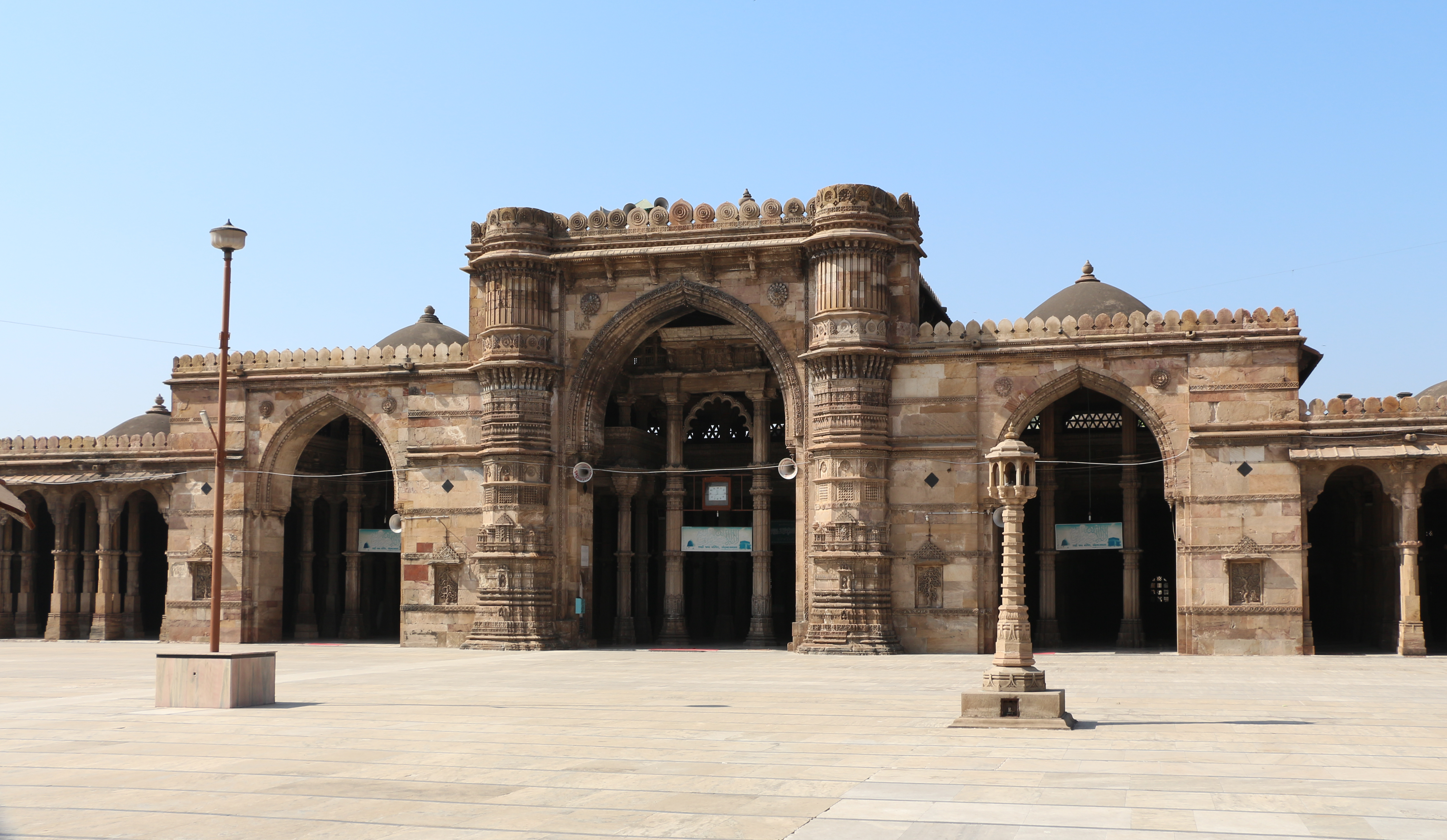 Jama Masjid, Ahmedabad, India